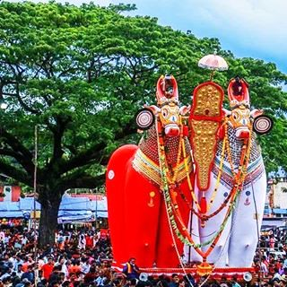 Gigantic effigies of Lord Shiva's vehicle Nandi, locally known as Kettu kala